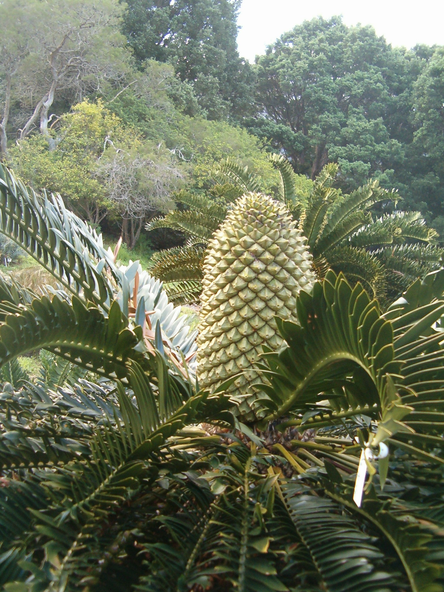 At Kirstenbosch National Botanical Gardens Genus: Encephalartos